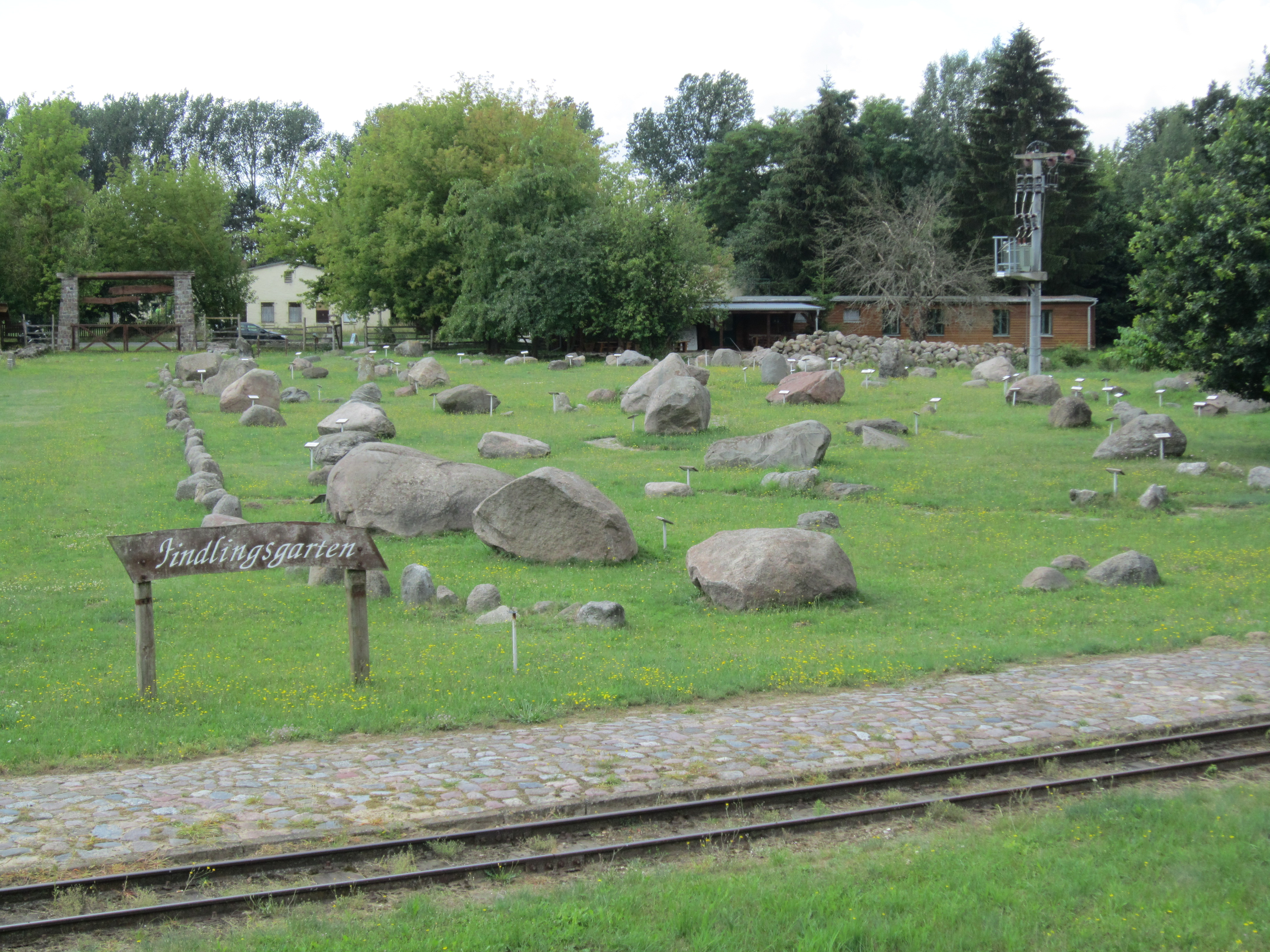 Narrow gauge railway MPSB station "Findlingsgarten"